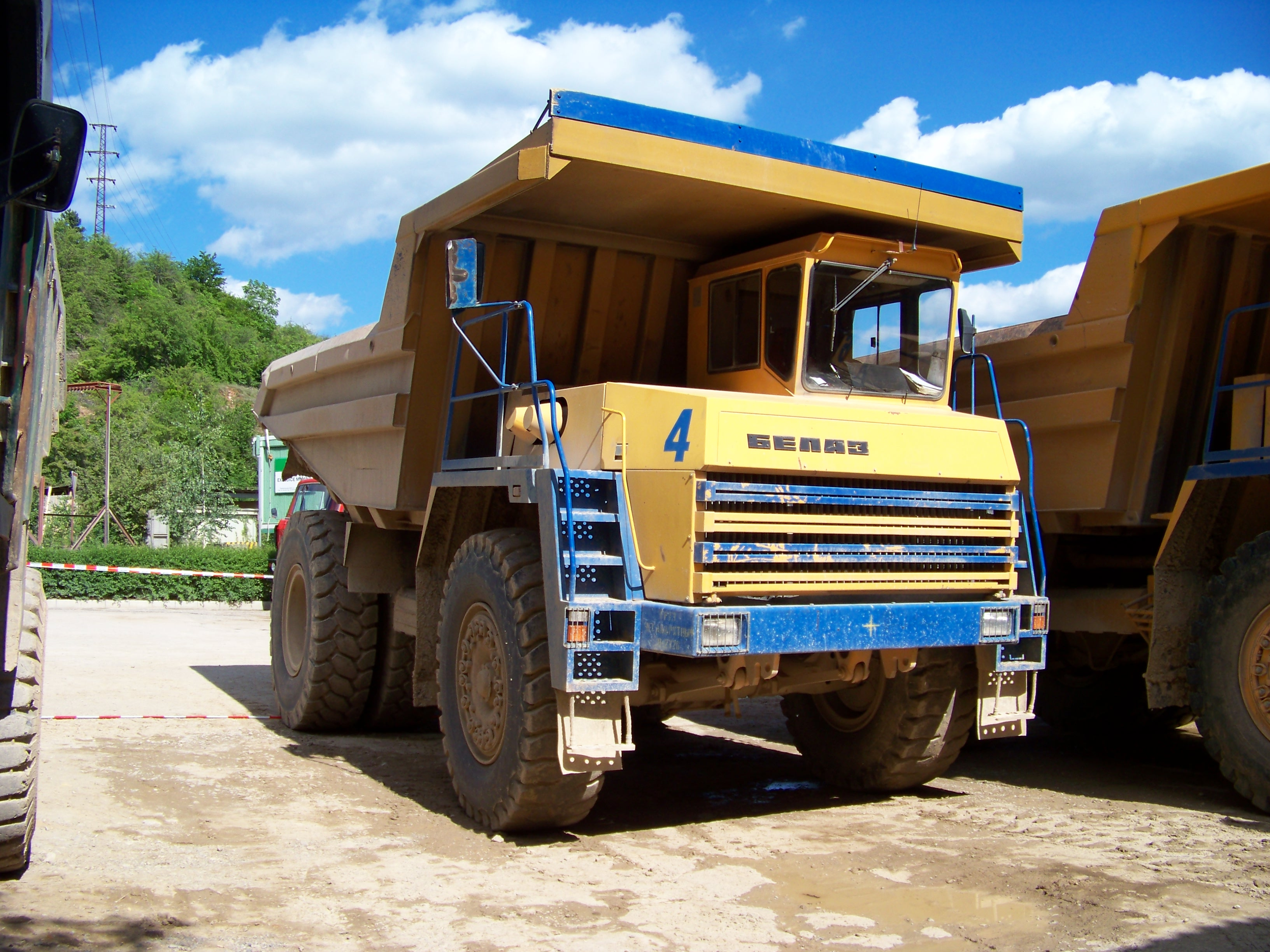 Mořina, Beroun District, Central Bohemian Region, the Czech Republic. BelAZ Trucks in the quarry area.